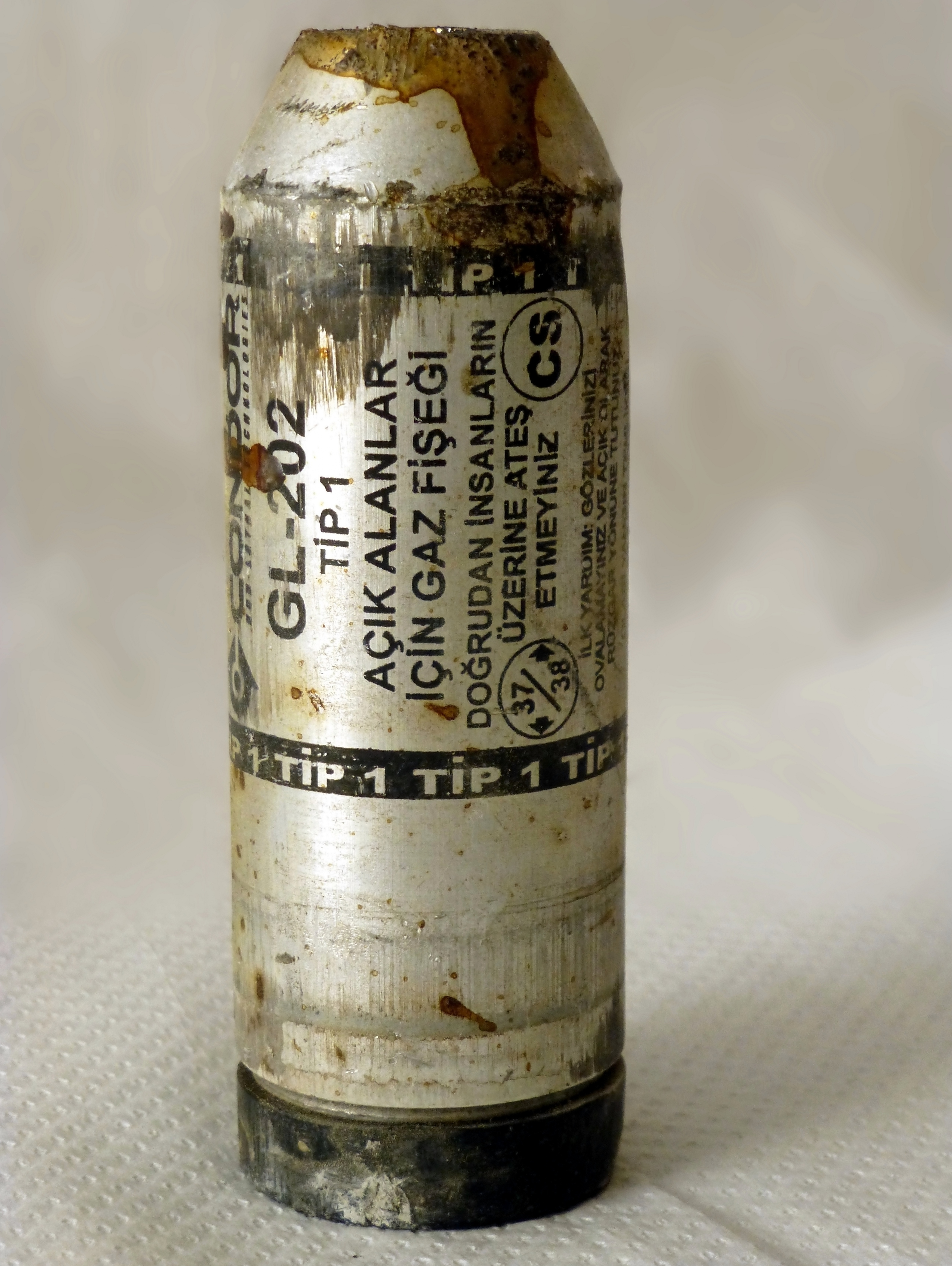 CS Gas used in May_Day, May 1, 2013, Şişli, İstanbul, Turkey